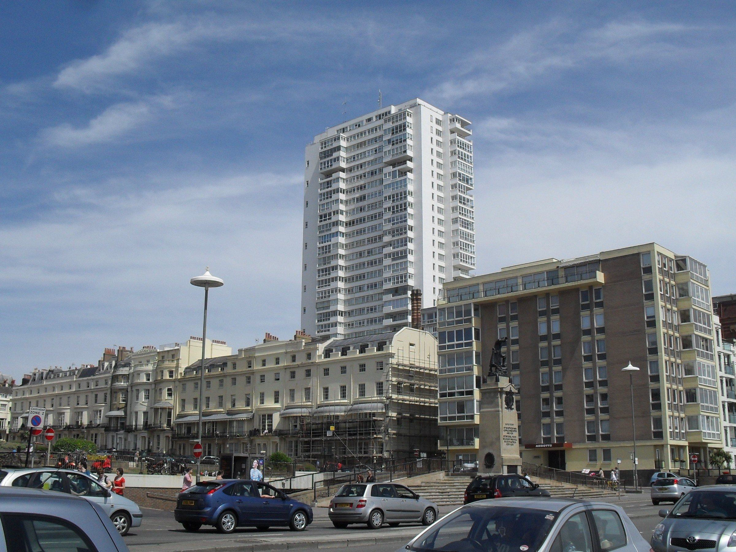 Sussex Heights, St Margaret's Place, Brighton, City of Brighton and Hove, England. Brighton's tallest building, this residential tower block was built by R. Seifert & Partners in 1966–68. This picture was taken from the southwest (King's Esplanade), showing how the building dominates the skyline above Regency Square (left side of photo).